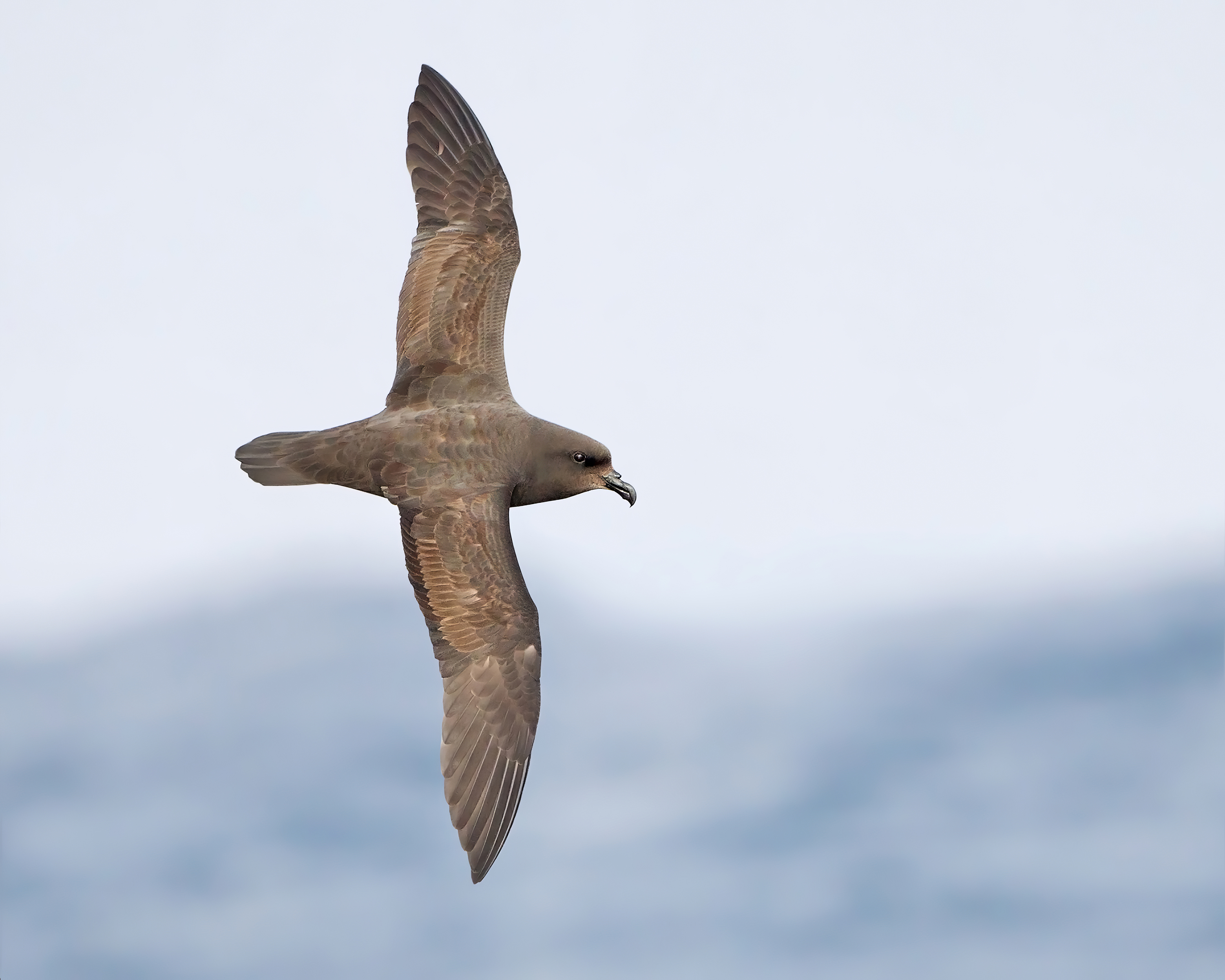 Great-winged Petrel (Pterodroma macroptera), East of the Tasman Peninsula, Tasmania, Australia